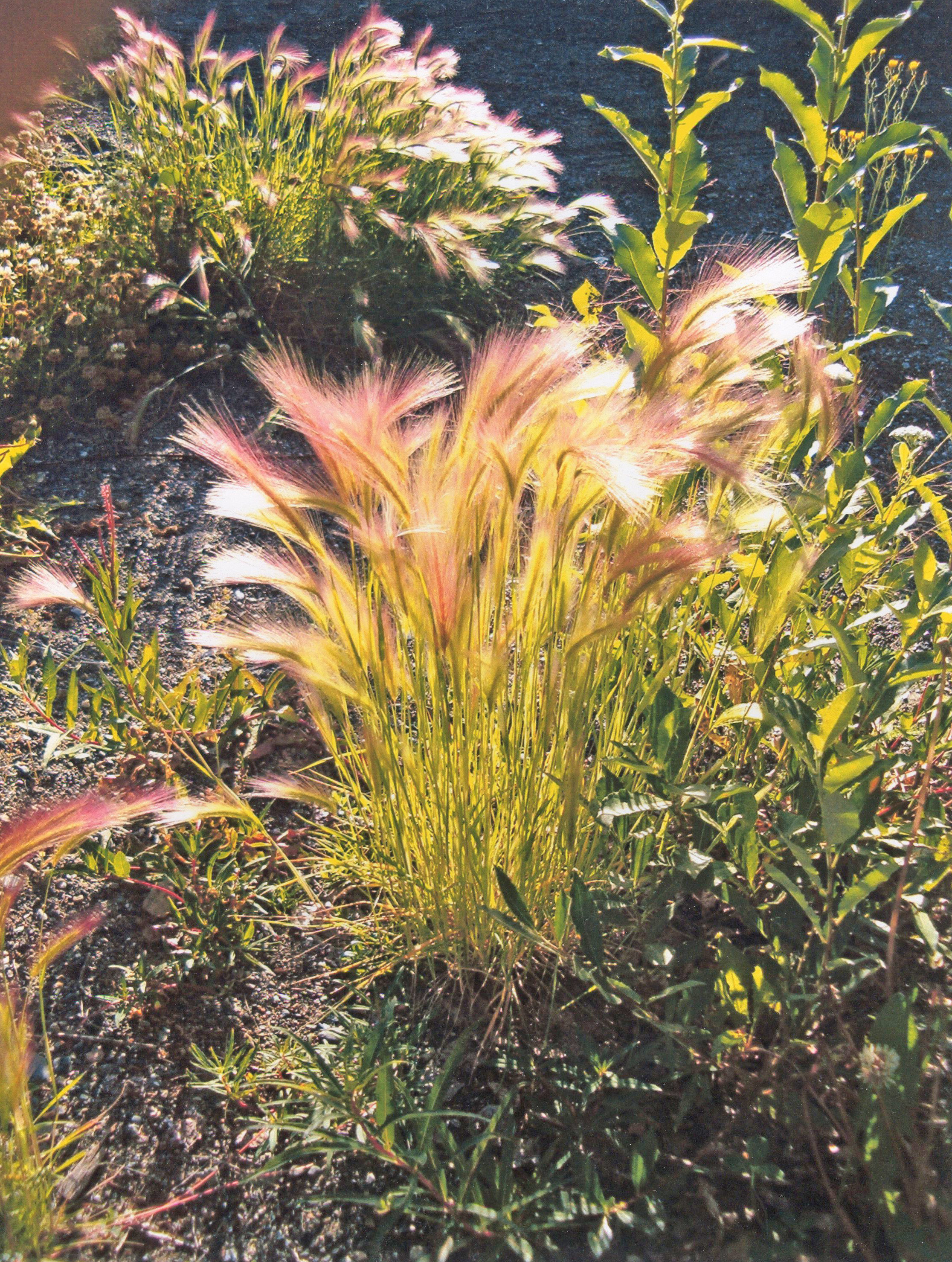 Foxtail Barley